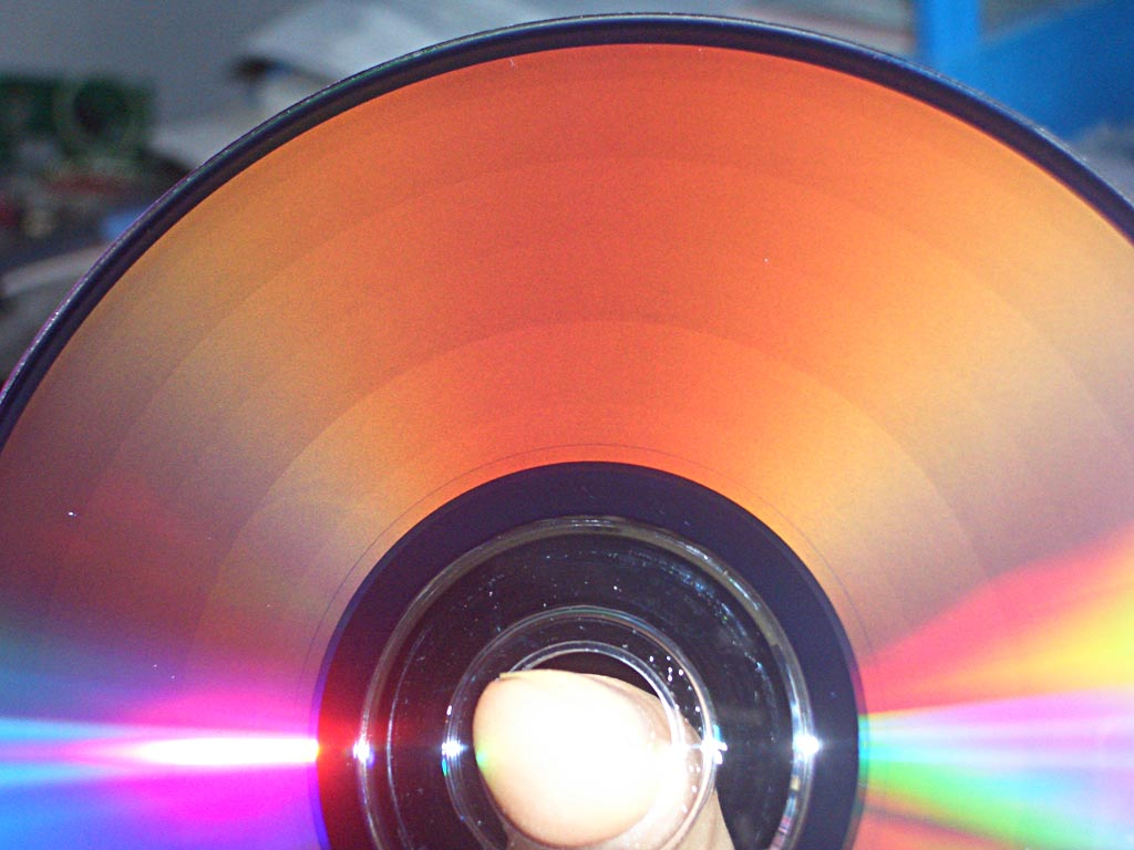 A photograph of a freshly burned DVD-R that clearly illustrates the Zone-CLV recording strategy used by high speed (in this case, 16x) DVD recorders.